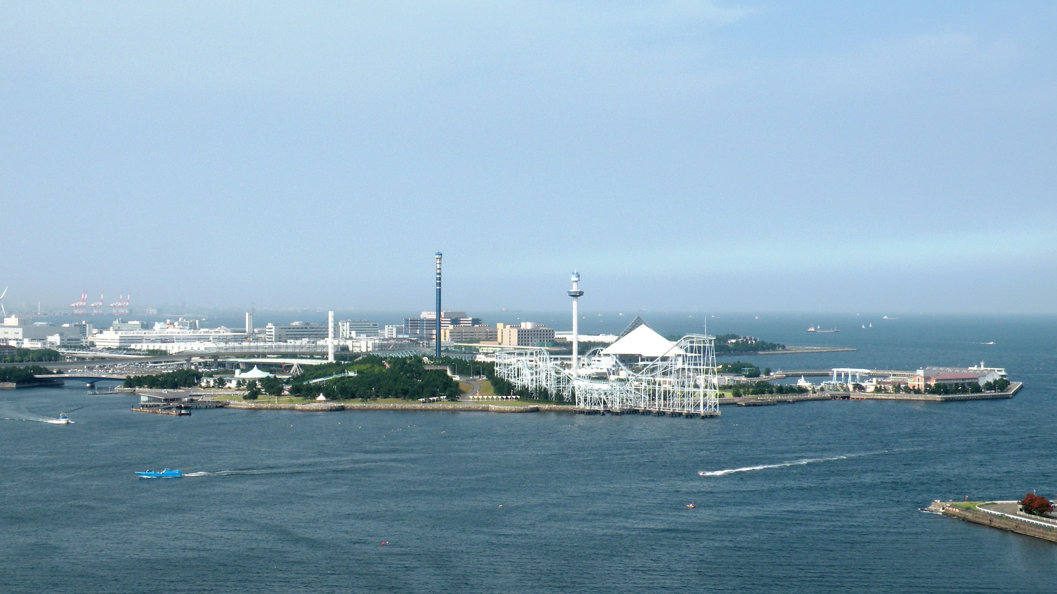 Yokohama Hakkeijima Sea Paradise,Aquarium and Amusement park,Yokohama, Japan